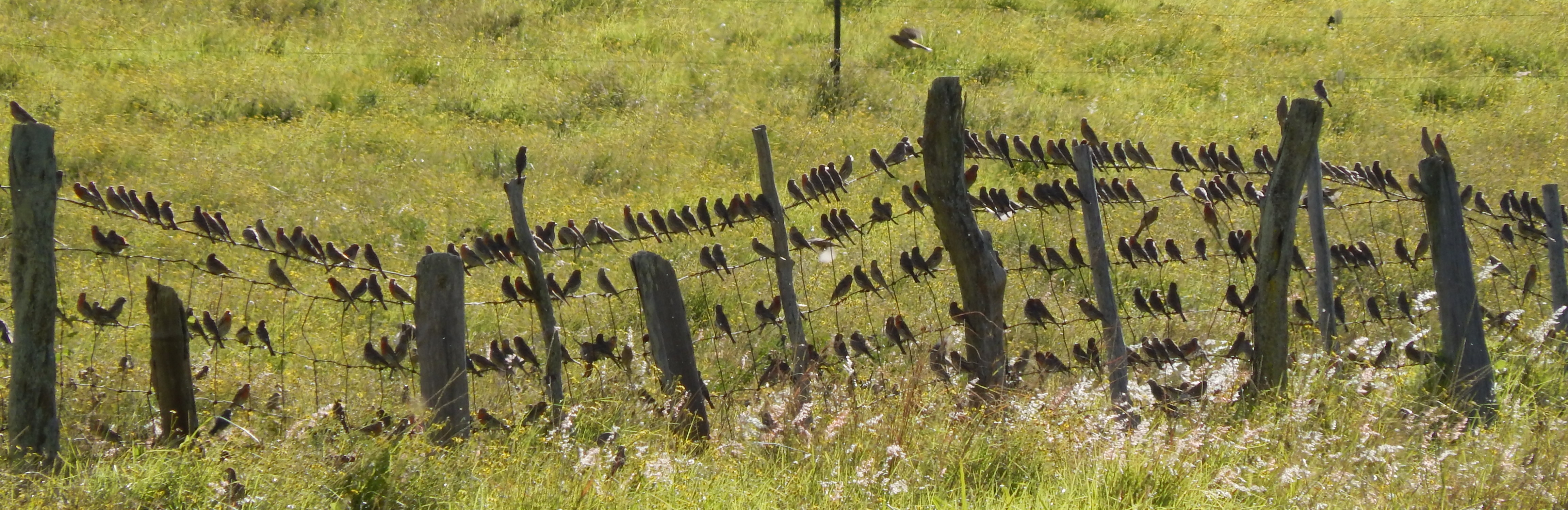 Watched these birds for a while. There was a large flock that would fly back and forth from a grove of Eucalyptus trees to grasses and fireweed in the pasture. They also hung out on this fence and some nearby power lines. We've been monitoring fireweed plots here every other month for the past six years and only observed this mass flocking this once.